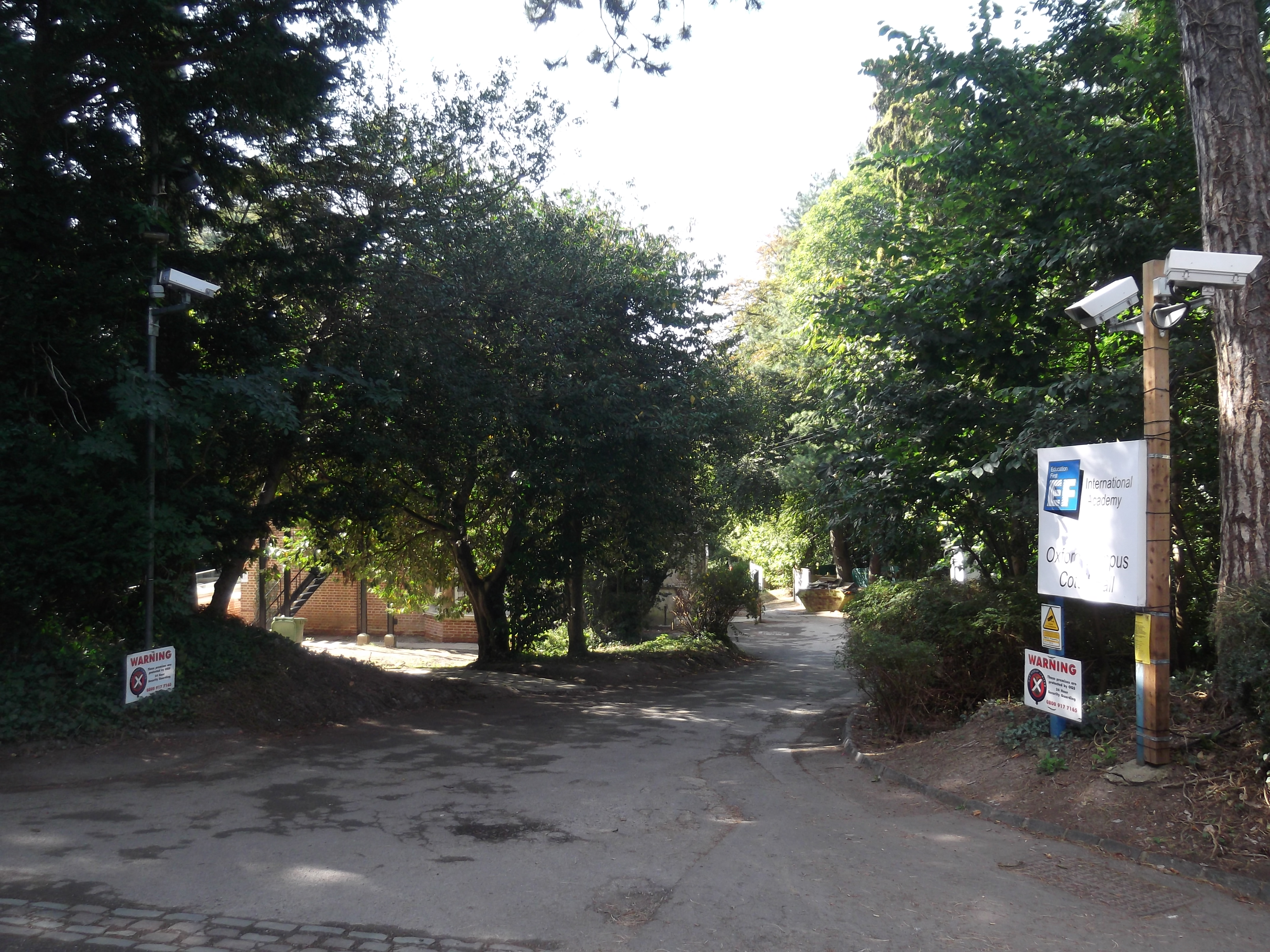 On Pullens Lane close to the junction with Harberton Mead and Jack Straw's Lane.